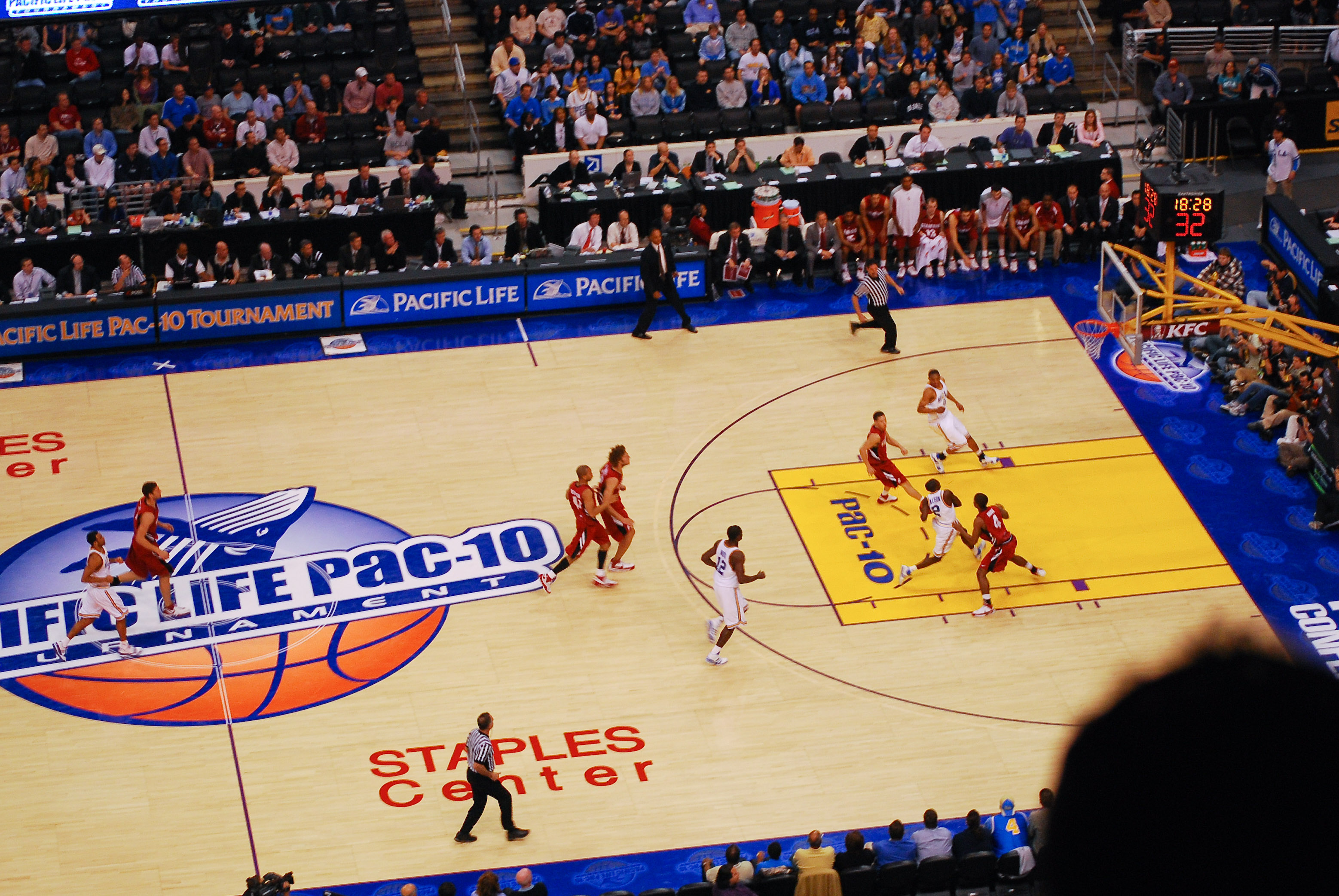 Collison's mighty drive